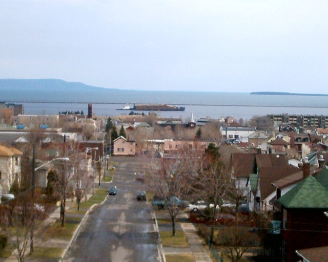 I, (Derek Silver), took this photograph on 20 April 2006. It is of a boat in the harbour of Thunder Bay, Ontario. I hereby release it into public domain for the masses to enjoy. :) Vidioman| 11:56, 19 April 2007 (UTC) Category:Transport in Thunder Bay Summary I, (Derek Silver), took this photograph on 20 April 2006. It is of a boat in the harbour of Thunder Bay, Ontario. I hereby release it into public domain for the masses to enjoy. :) Vidioman 11:56, 19 April 2007 (UTC)